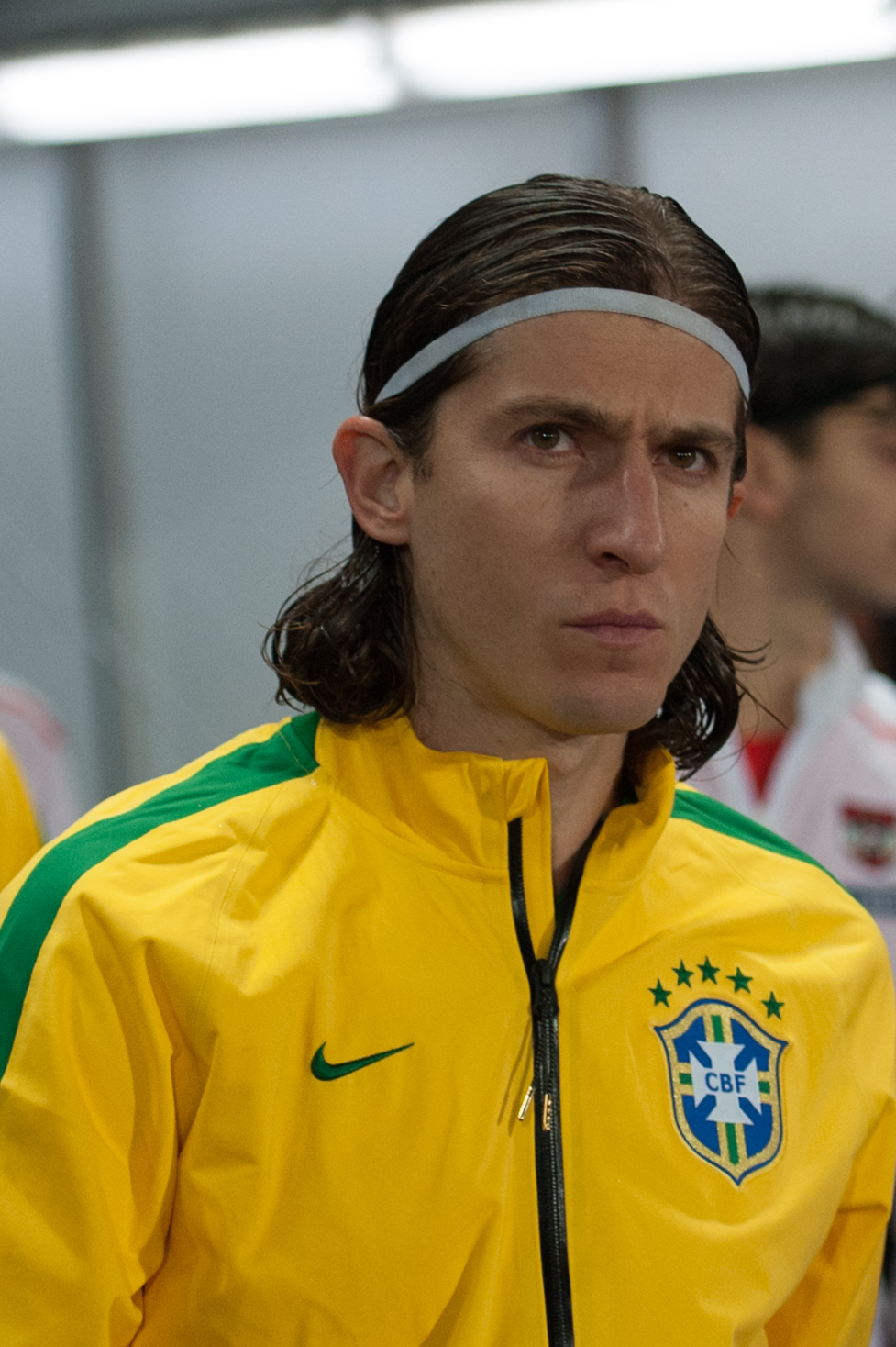 International Friendly Austria - Brazil November 18, 2014: Filipe Luis